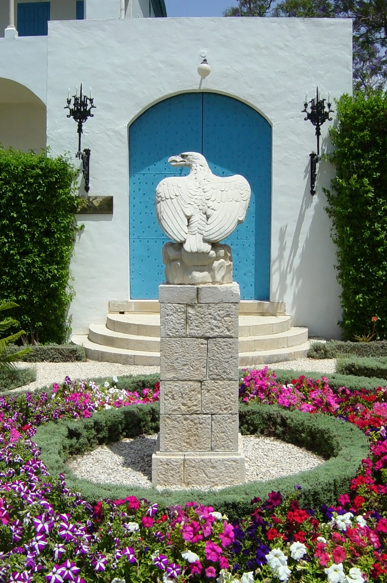 Gardens around mansion of Bahji